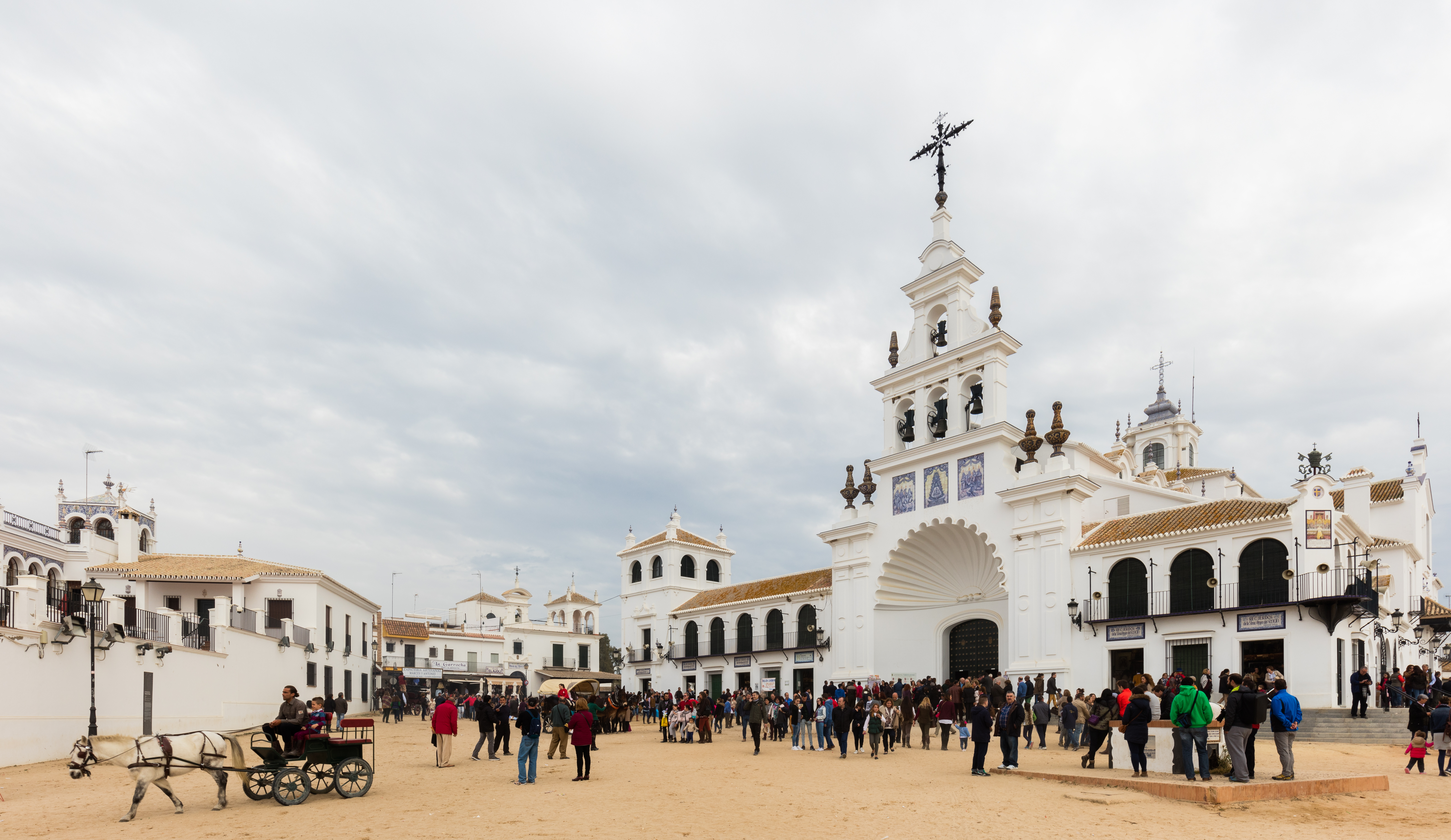 Ermita del Rocío, El Rocío, Huelva, Spain